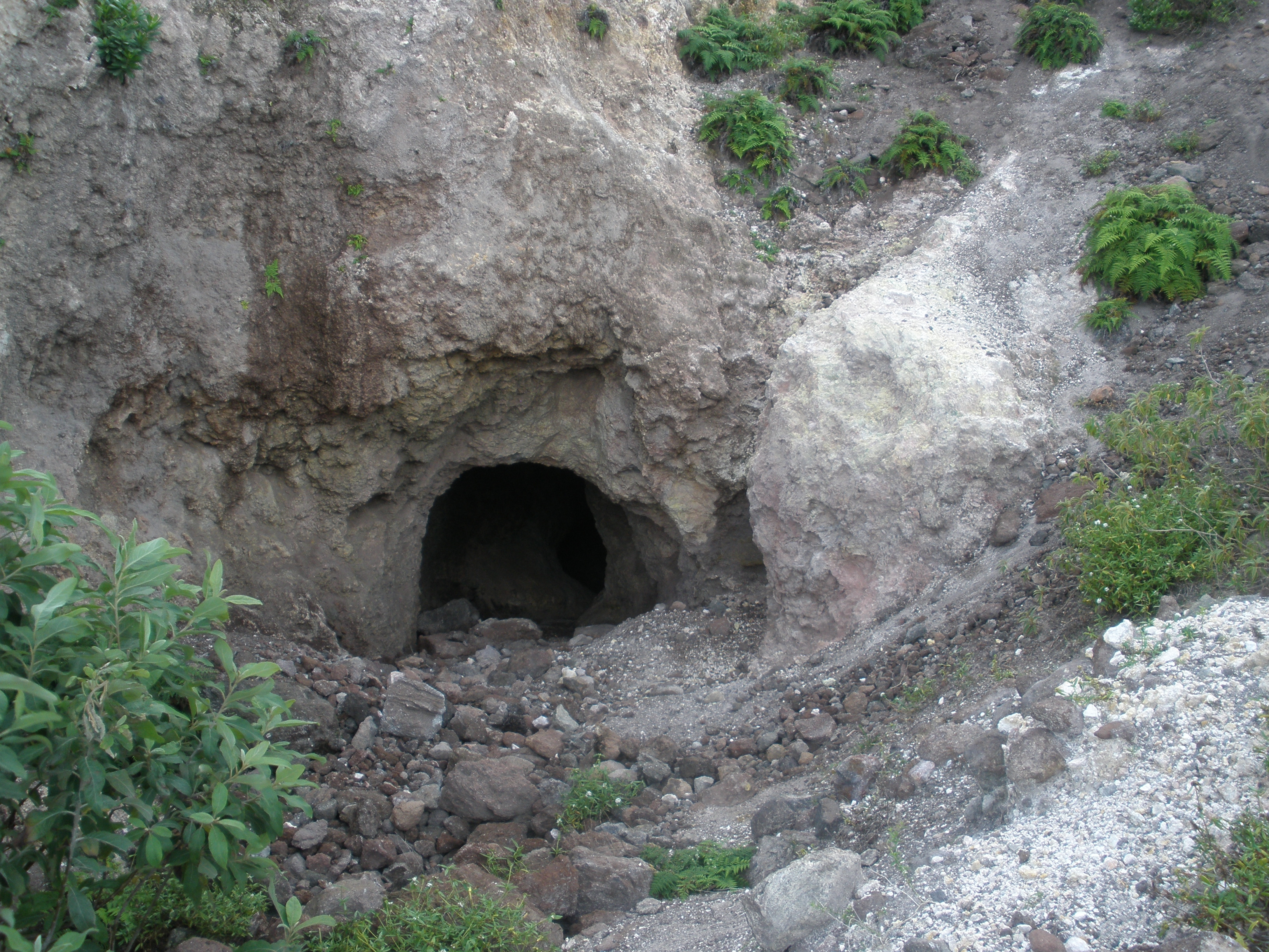 I could feel the heat and smell the sulfur just standing near the entrance. If there is a dragon on Saba, I'm sure this is where it lives.